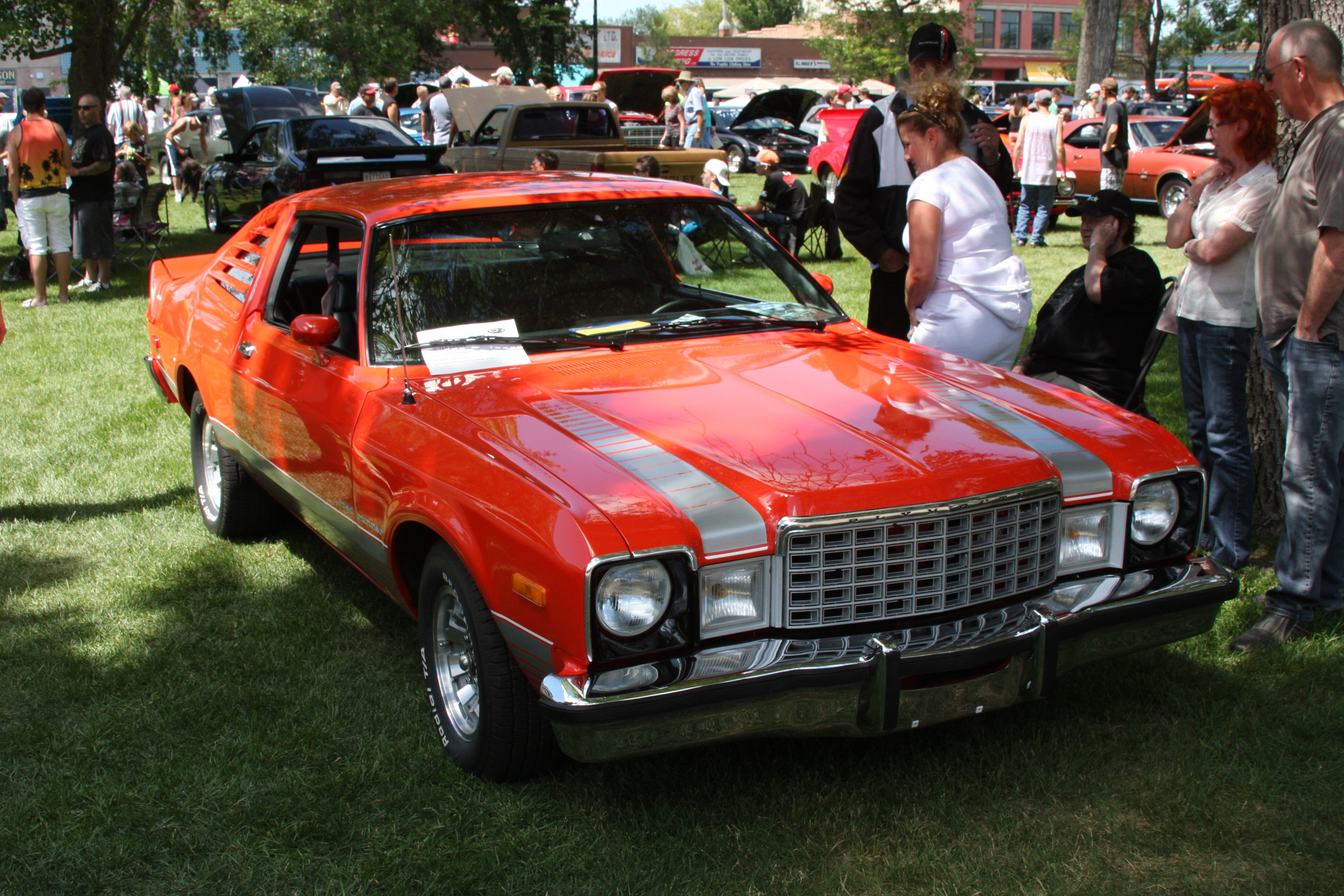 Plymouth Roadrunner